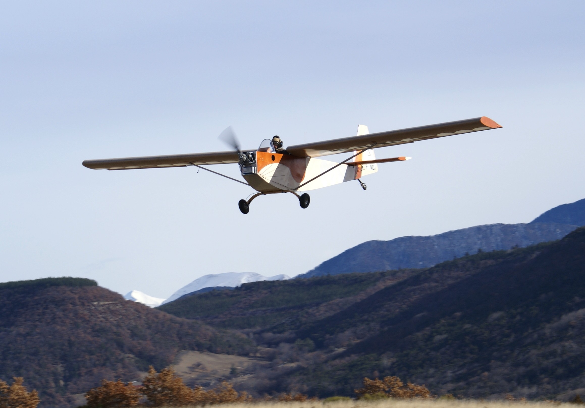 Electric aircraft : BL1E F-PMDJ "Electra" electric aircraft, first flight 12-23-2007 electric engine Electravia aircraft Souricette. Owner Anne Lavrand, France